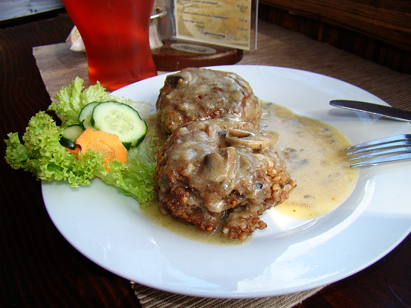 Buckwheat burgers aka Hreczki, Sanok